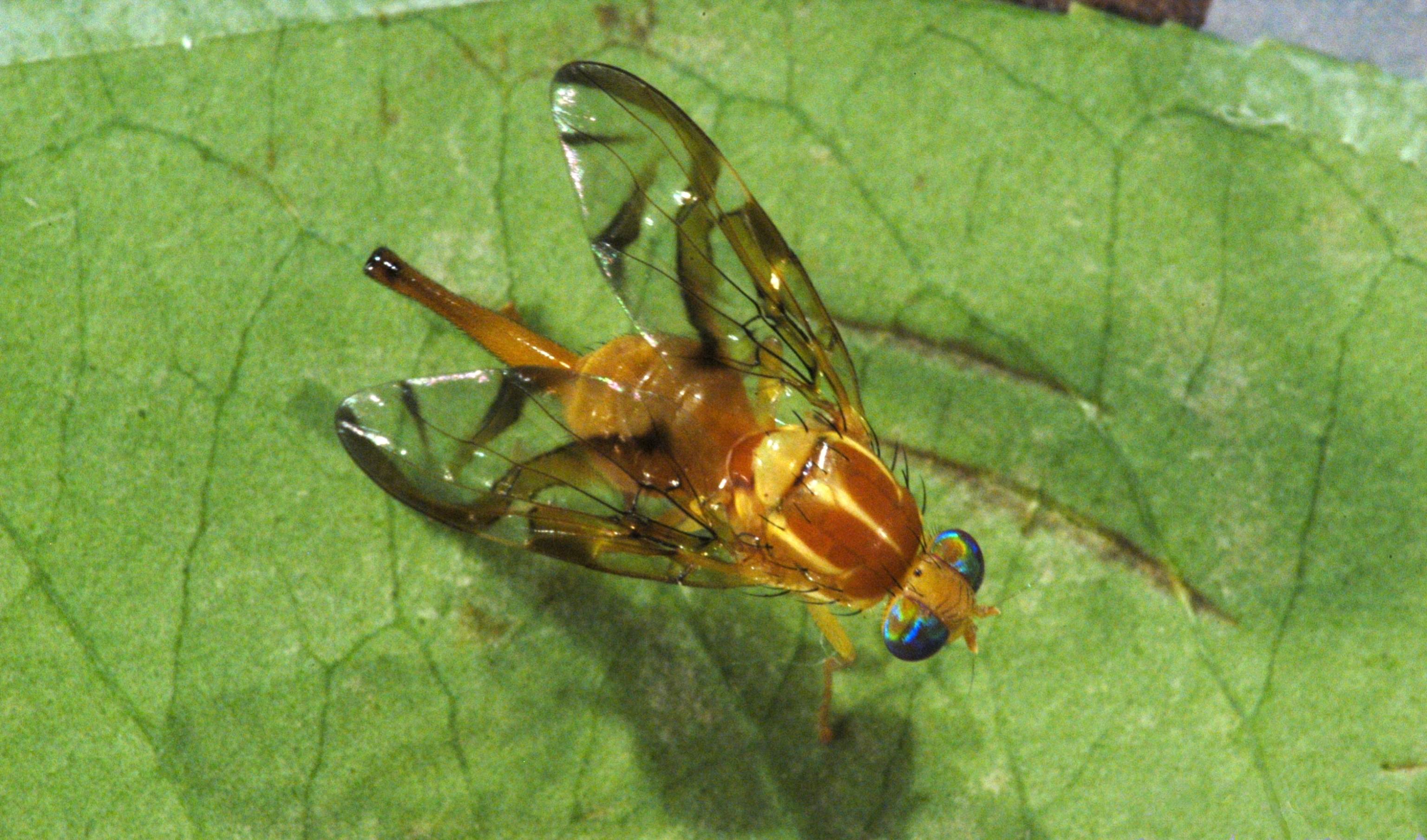 Anastrepha ludens Loew Common Name: Mexican fruit fly Photographer: Division of Plant Industry Archive, Florida Department of Agriculture and Consumer Services, United States Contact: Jeffrey W. Lotz, Florida Department of Agriculture and Consumer Services Descriptor: Adult(s) Image taken in: Florida, United States